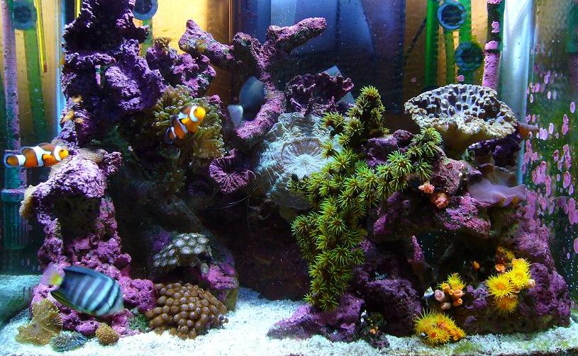 John Tan